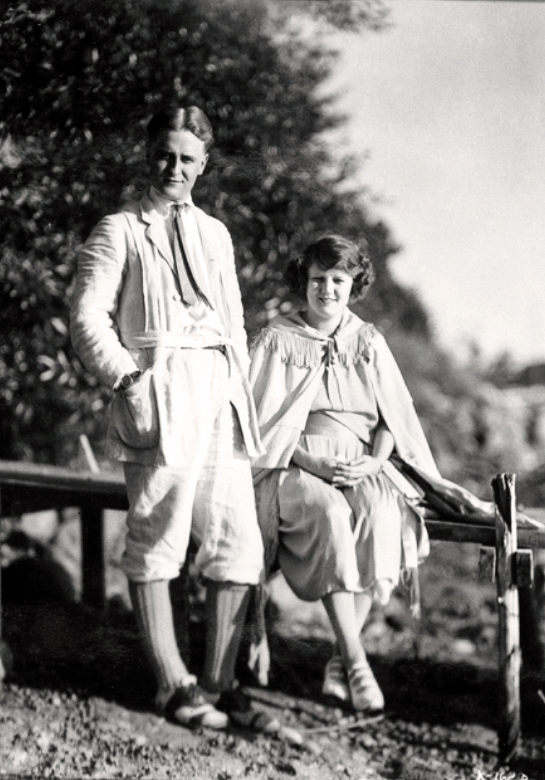 Black-and-white photographic portrait of writer F. Scott Fitzgerald and wife Zelda, taken at Dellwood, approximately a month before the birth of their daughter Scottie. Courtesy of the Minnesota Historical Society.